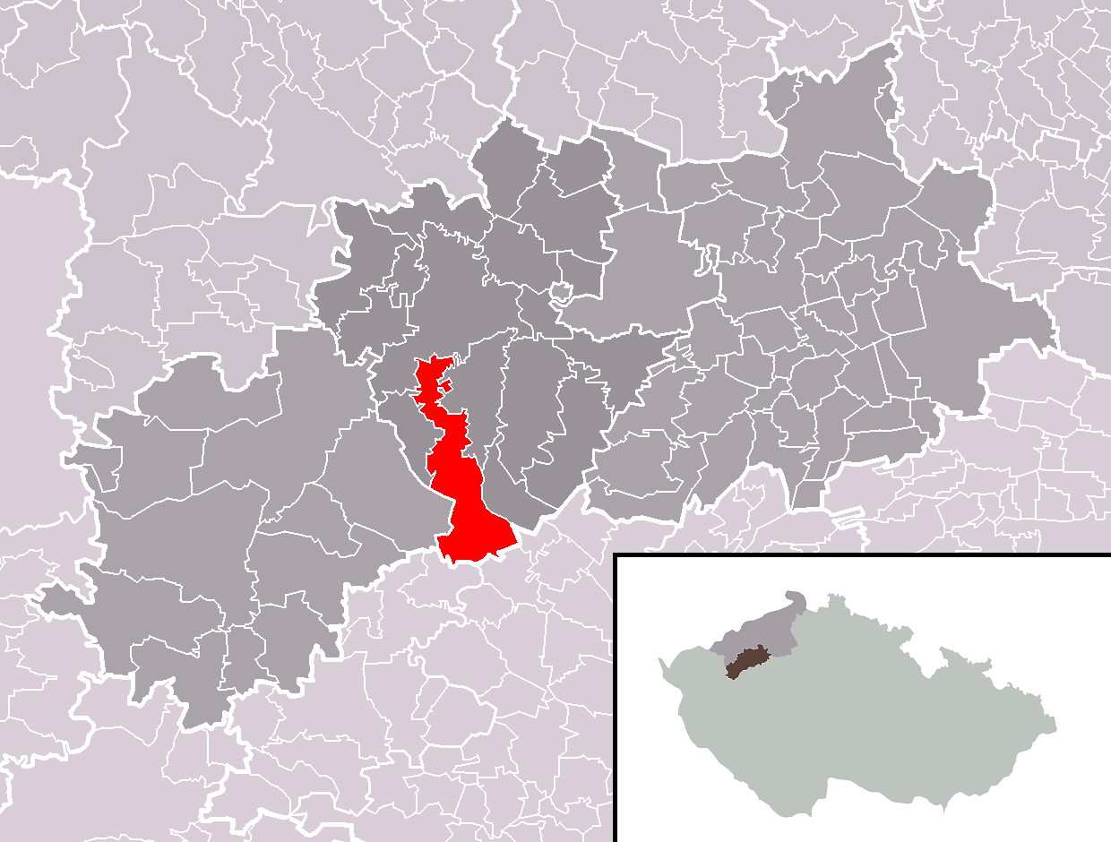 Location of Měcholupy municipality within Louny District and administrative area of Žatec as a Municipality with Extended Competence.